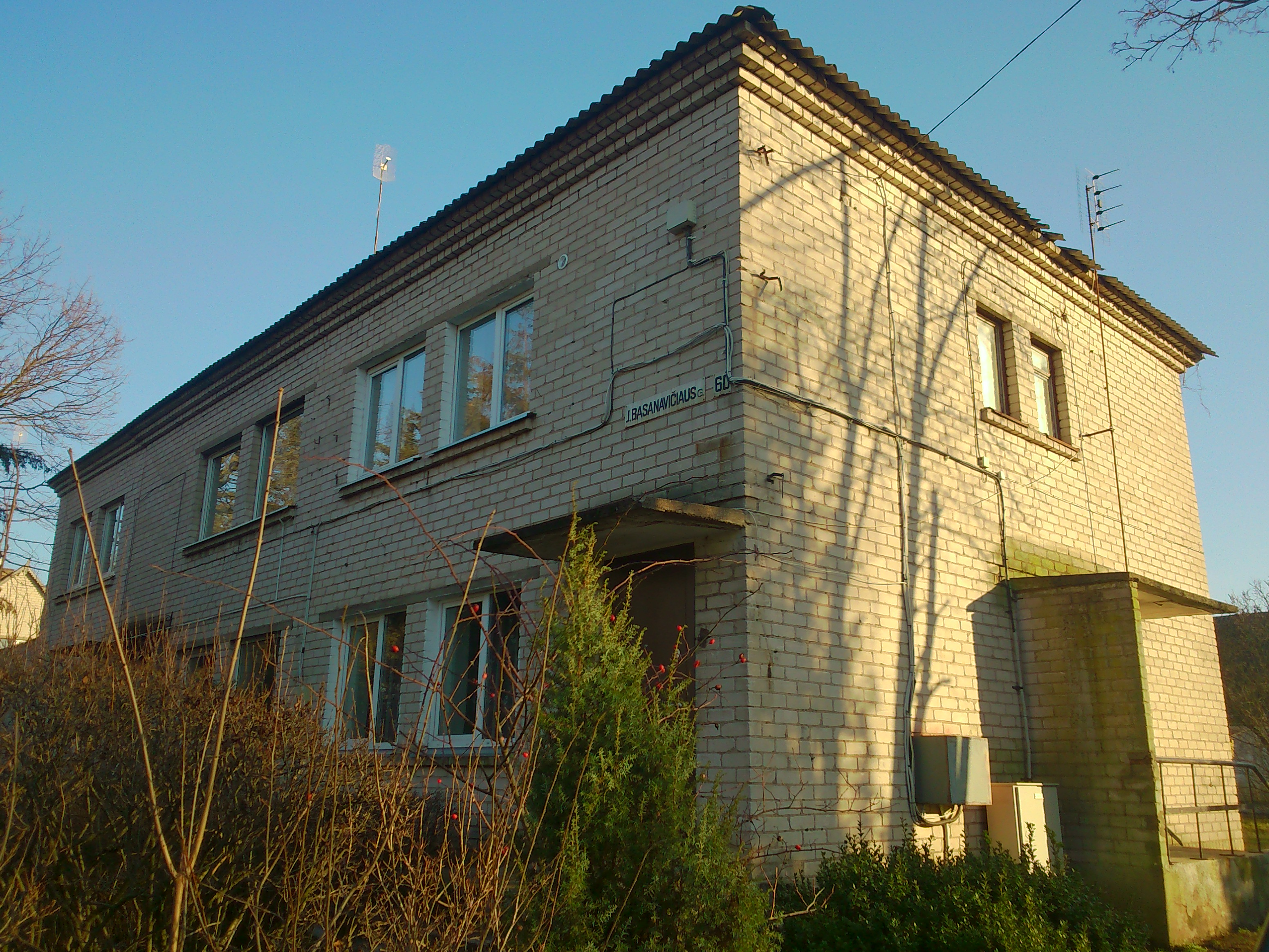 Miskininku Street-Jonava